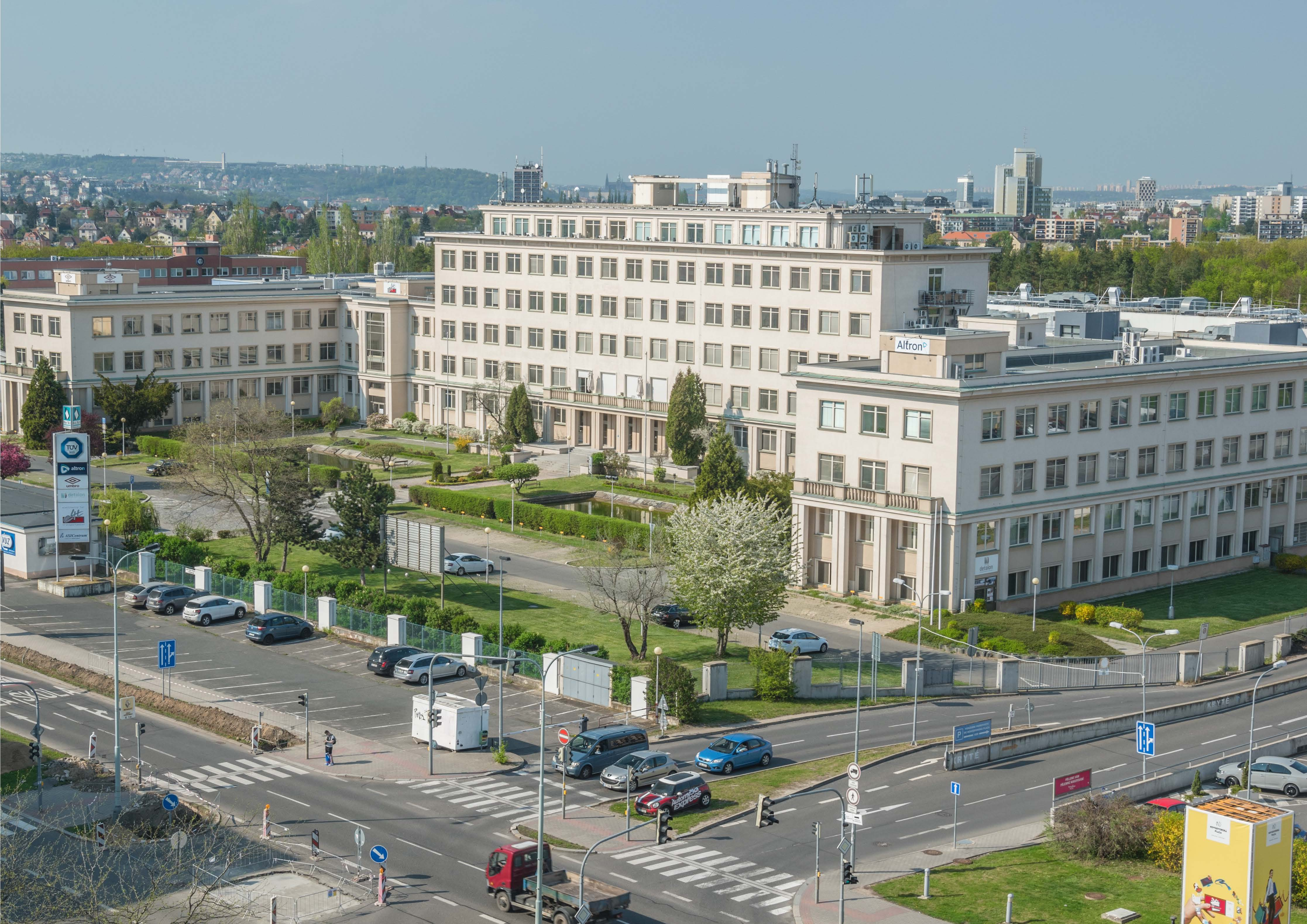 This property was build by Czech architect Karel Prager during the years 1955 – 1958 as Research Institute of Communication Technologies A. S. Popov.